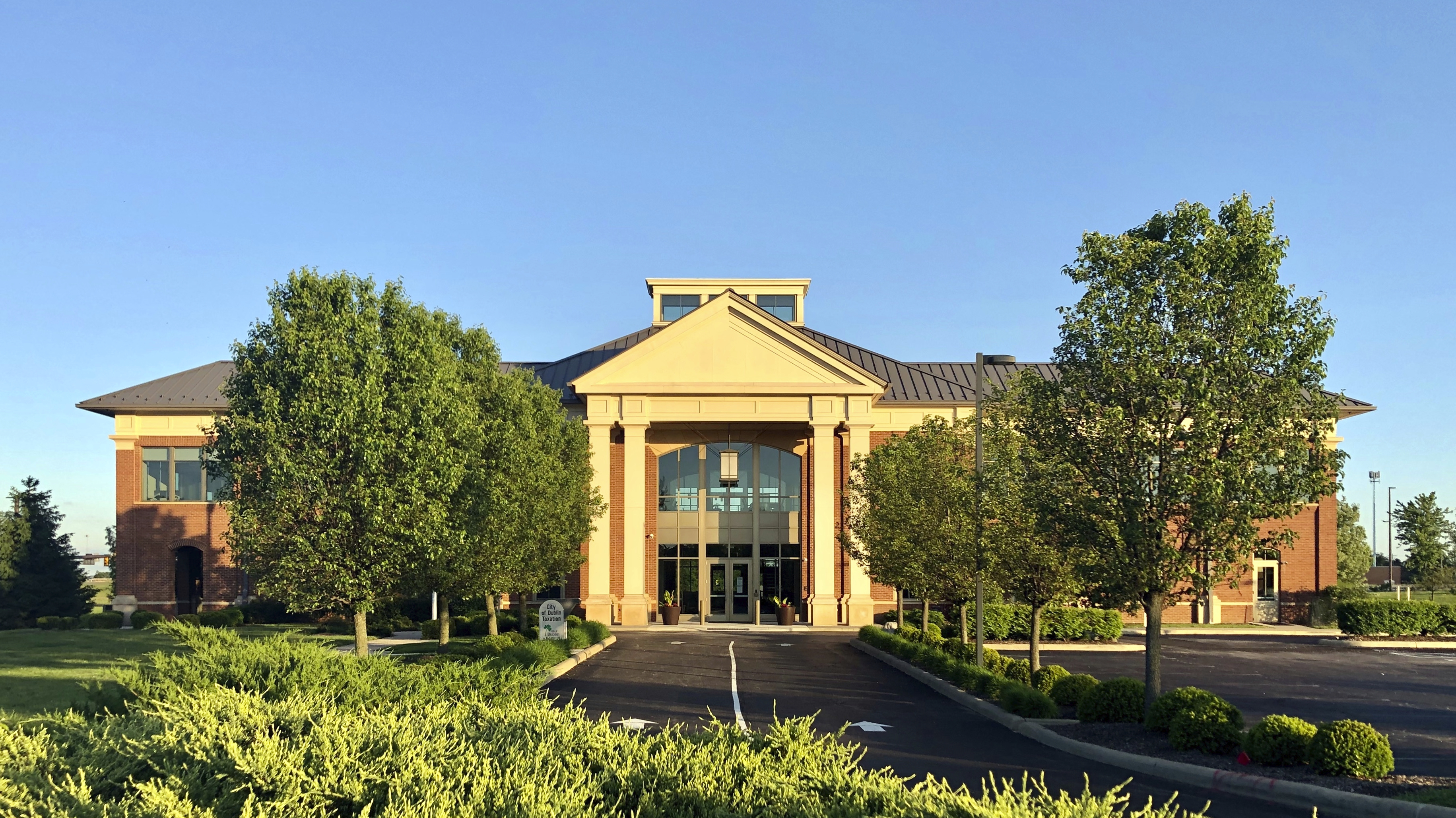 Dublin City Hall (Dublin, Ohio) - new city hall effective April 15, 2020